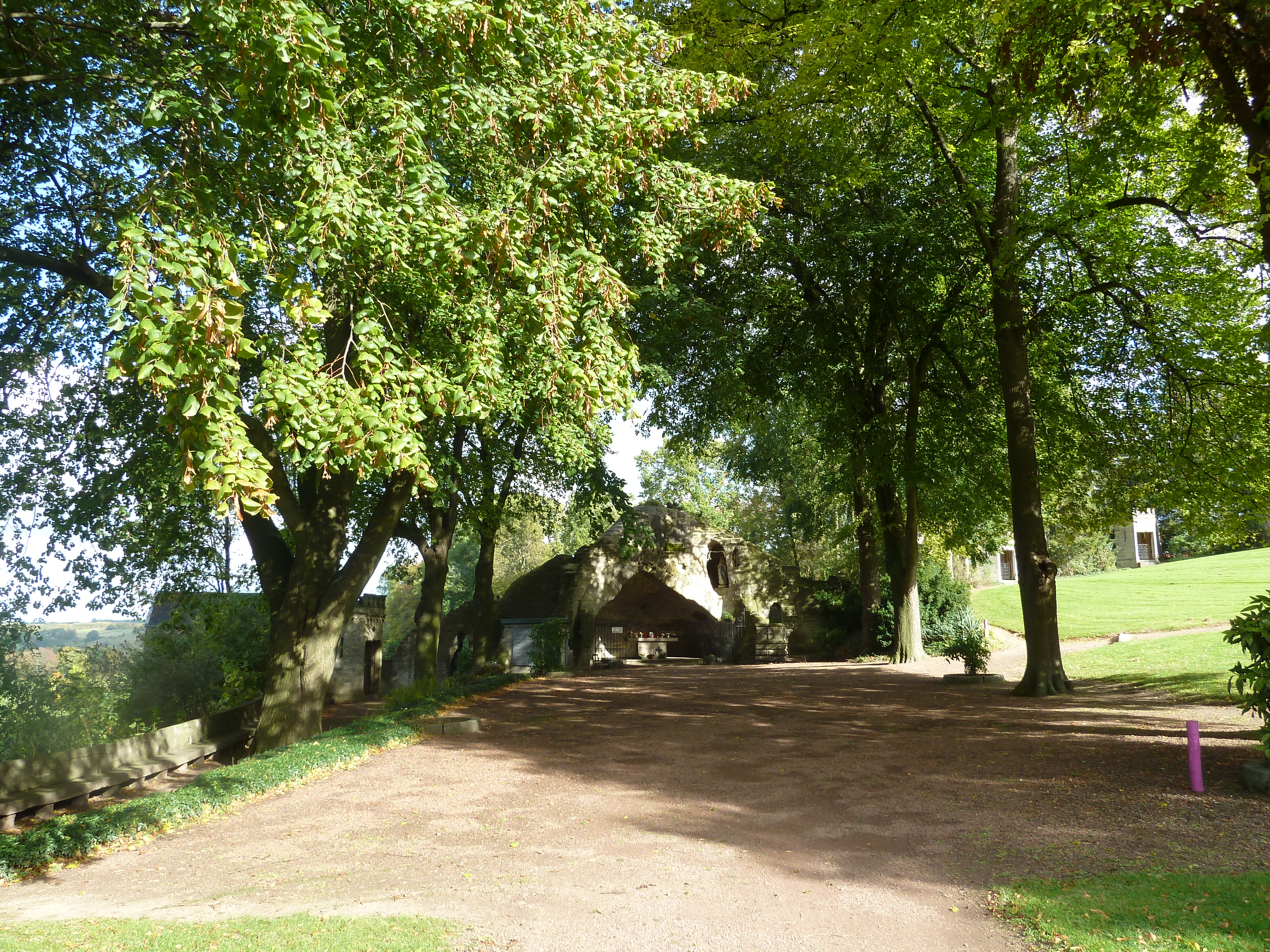 Kruiswegstaties with Lourdesgrot, Cadier en Keer, Limburg, the Netherlands